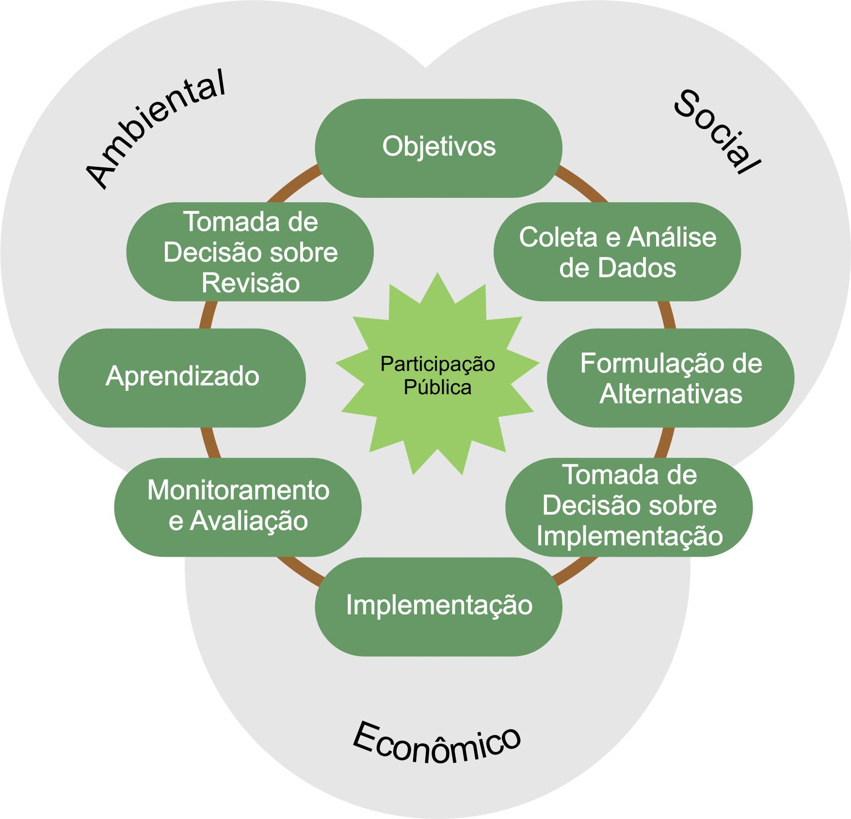 Planning Process according to Alberto Fonseca